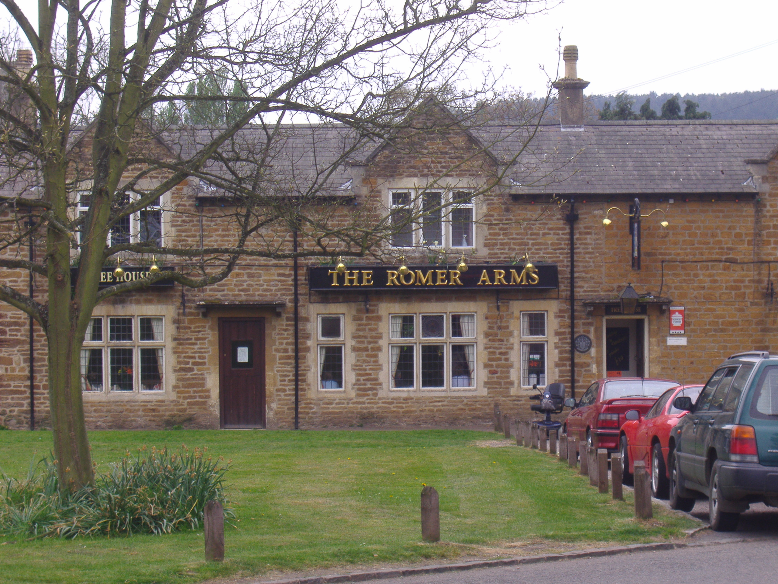 A Digital Photograph of the Romer Arms in Newnham, Northamptonshire